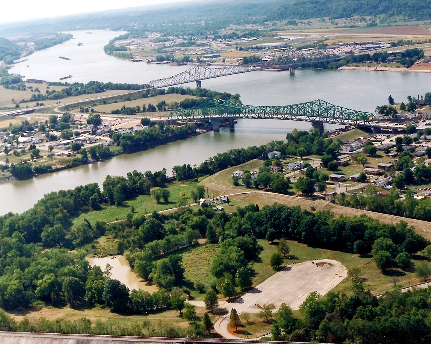 The confluence of the Kanawha and Ohio Rivers. The Kanawha River flows in from the left of the picture and joins the Ohio, meandering off in the distance. The town of Point Pleasant, West Virginia is in the foreground on the right. Henderson, West Virginia is on the left. The Ohio River forms the boundary between West Virginia and Ohio. The town of Gallipolis, Ohio lies in the far distance across the Ohio River. The view is to the west-southwest down the river.